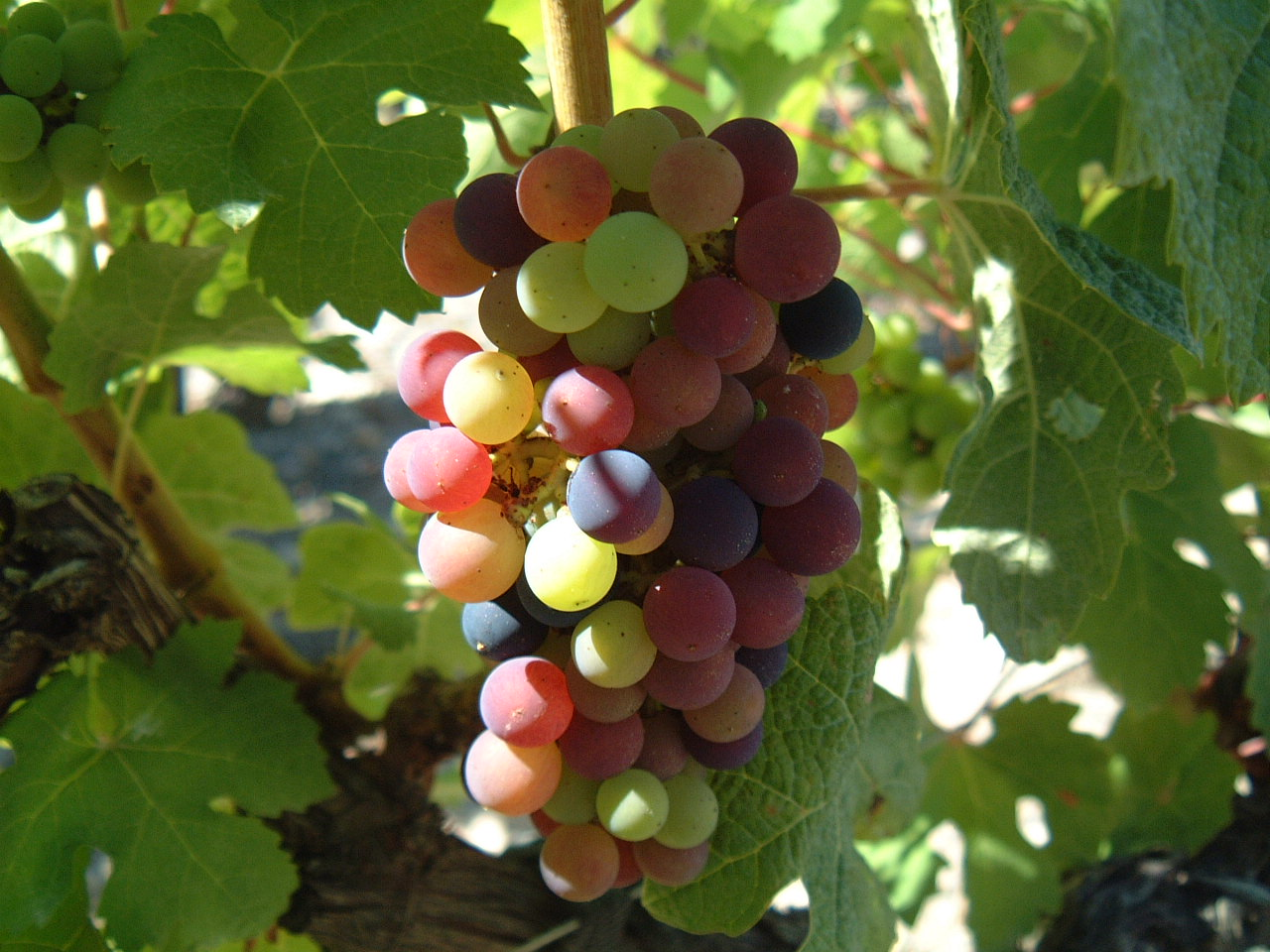 Wine grape (Cabernet Sauvignon) during veraison (ripening and color change) in the month of August in Moulis-en-Médoc, Bordeaux, France